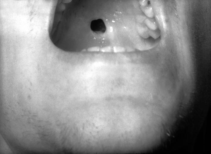 This photograph depicts a perforated hard palate on a patient with congenital syphilis. This patient with congenital syphilis has developed a perforation of hard palate due to gummatous destruction. These destructive tumors can also attack the skin, long bones, eyes, mucous membranes, throat, liver, or stomach lining.